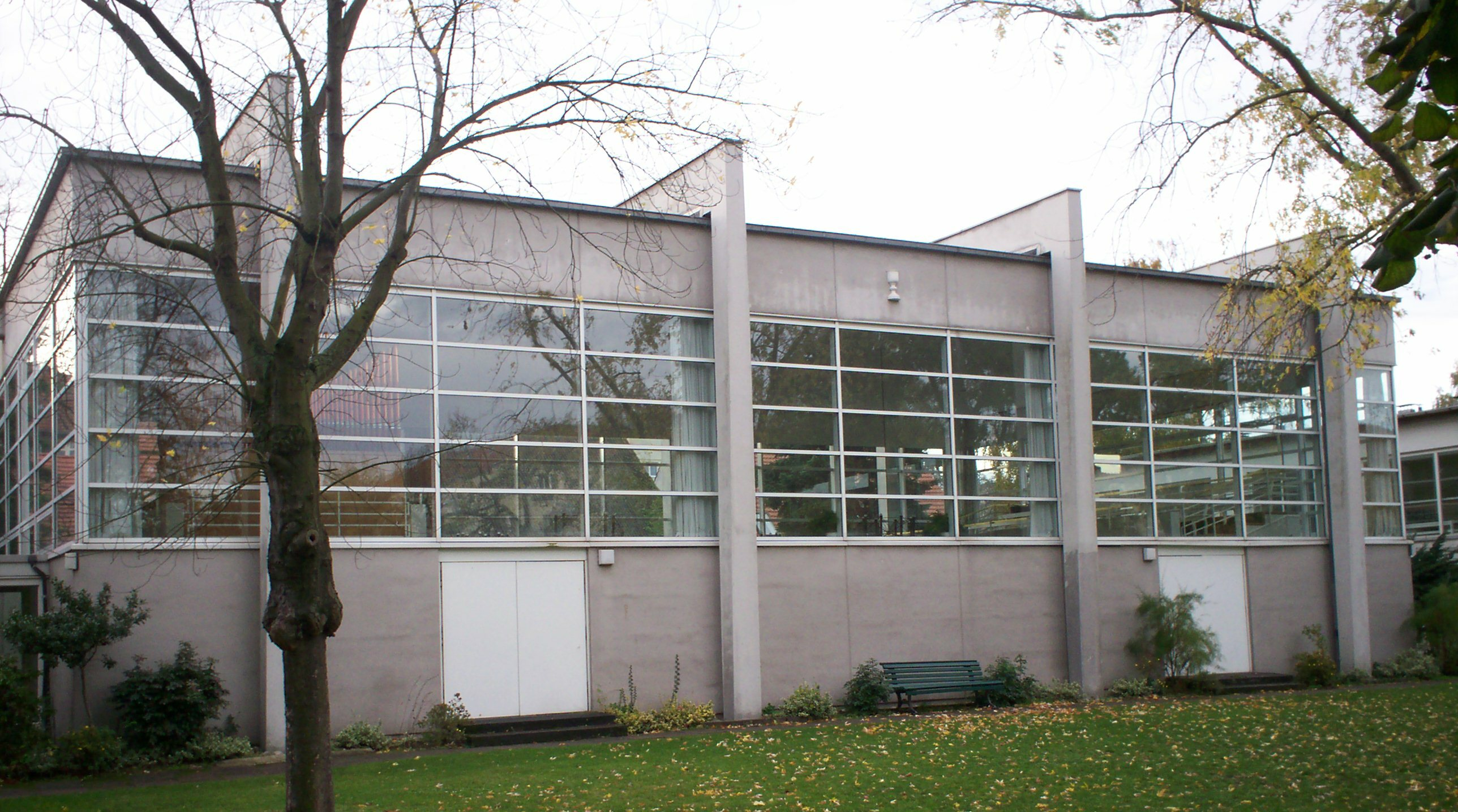 Prayer Hall of the Brethren Church (Moravian) Rixdorf, Neukölln, Berlin, Germany